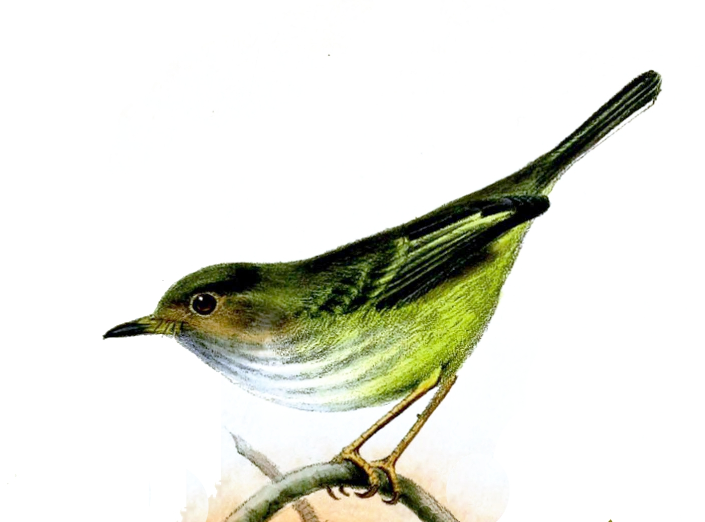 Pale-eyed Pygmy-Tyrant, adult